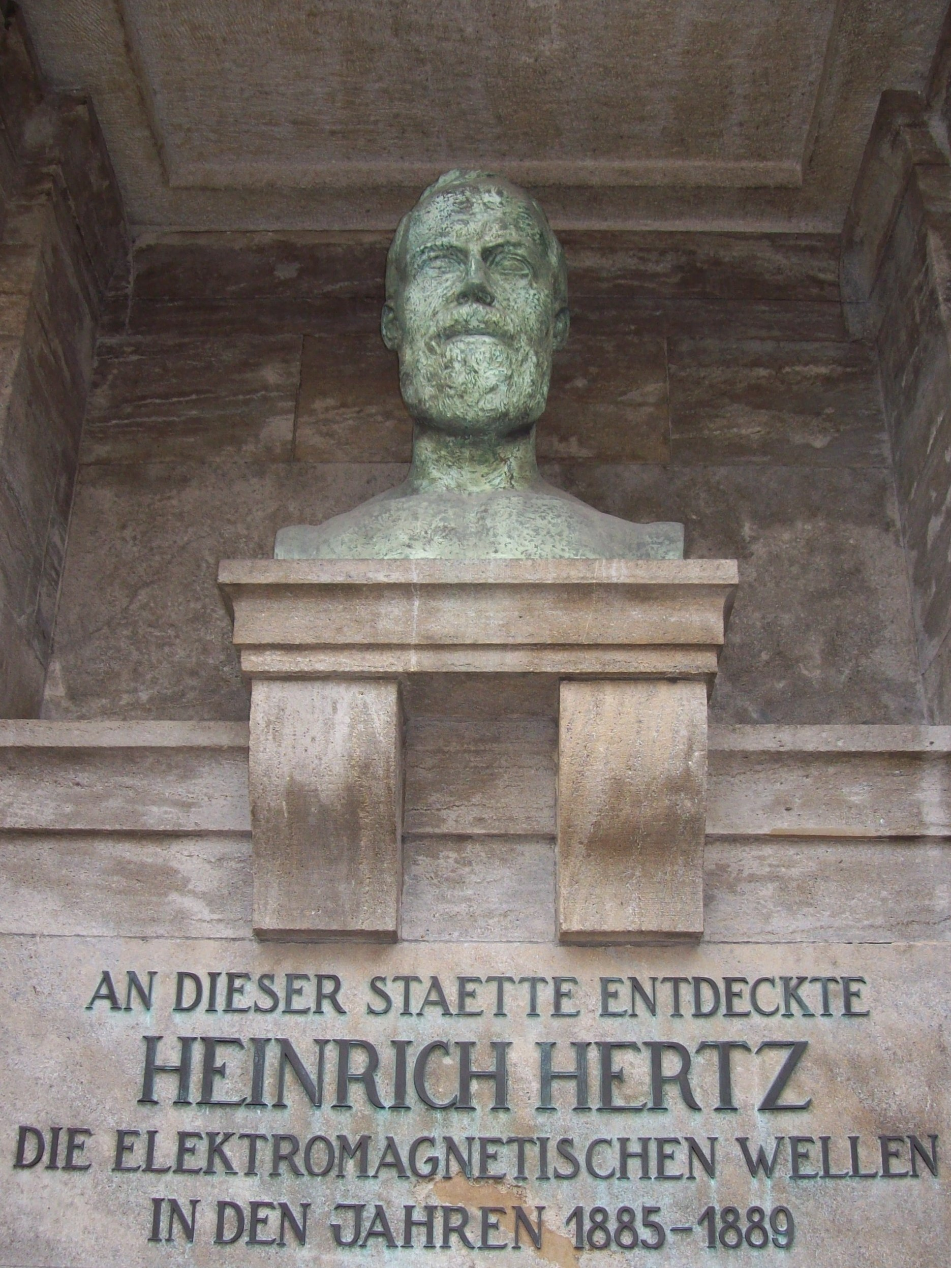 Memorial for Heinrich Hertz on the campus of the University of Karlsruhe Translated inscription: At this location Heinrich Hertz discovered electromagnetic waves in the years 1885-1889